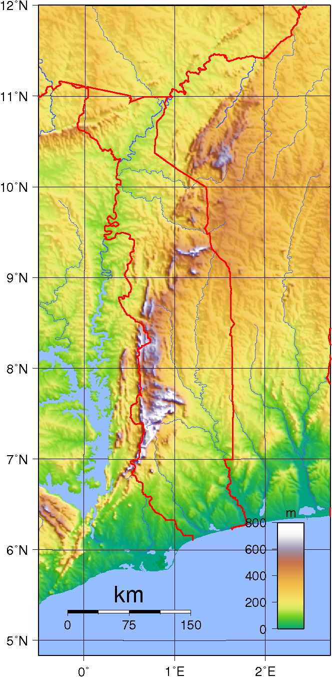 Topographic map of Togo. Created with GMT from SRTm data.